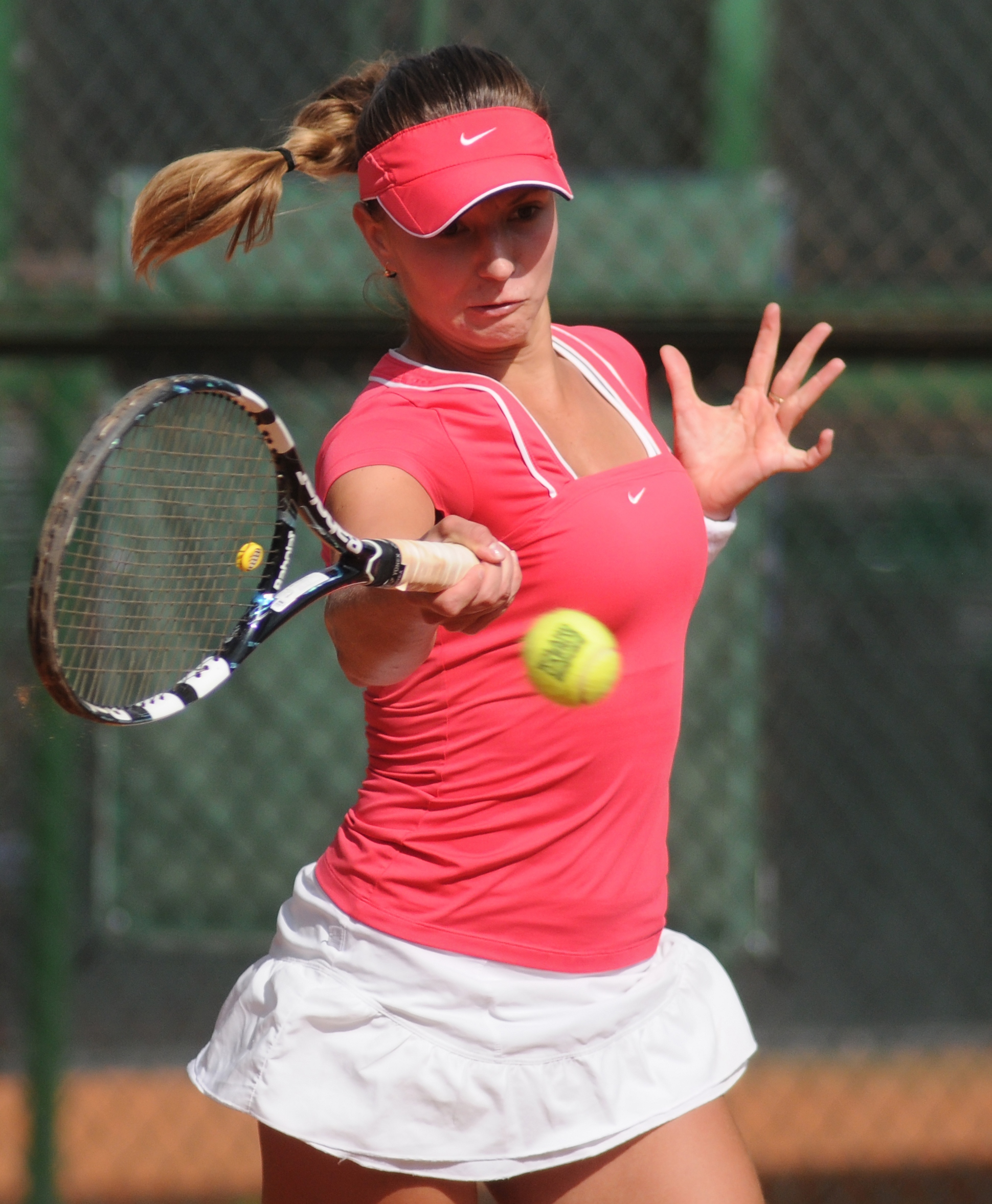 Silvia Njirić at the 2014 Moscow Cup